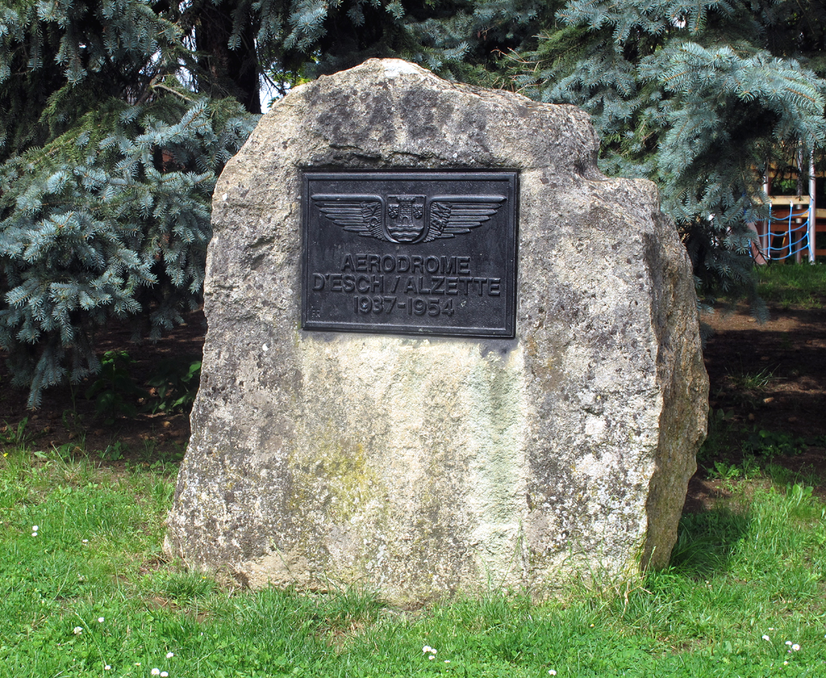 Memorial plaque airport Esch-Alzette, Luxembourg